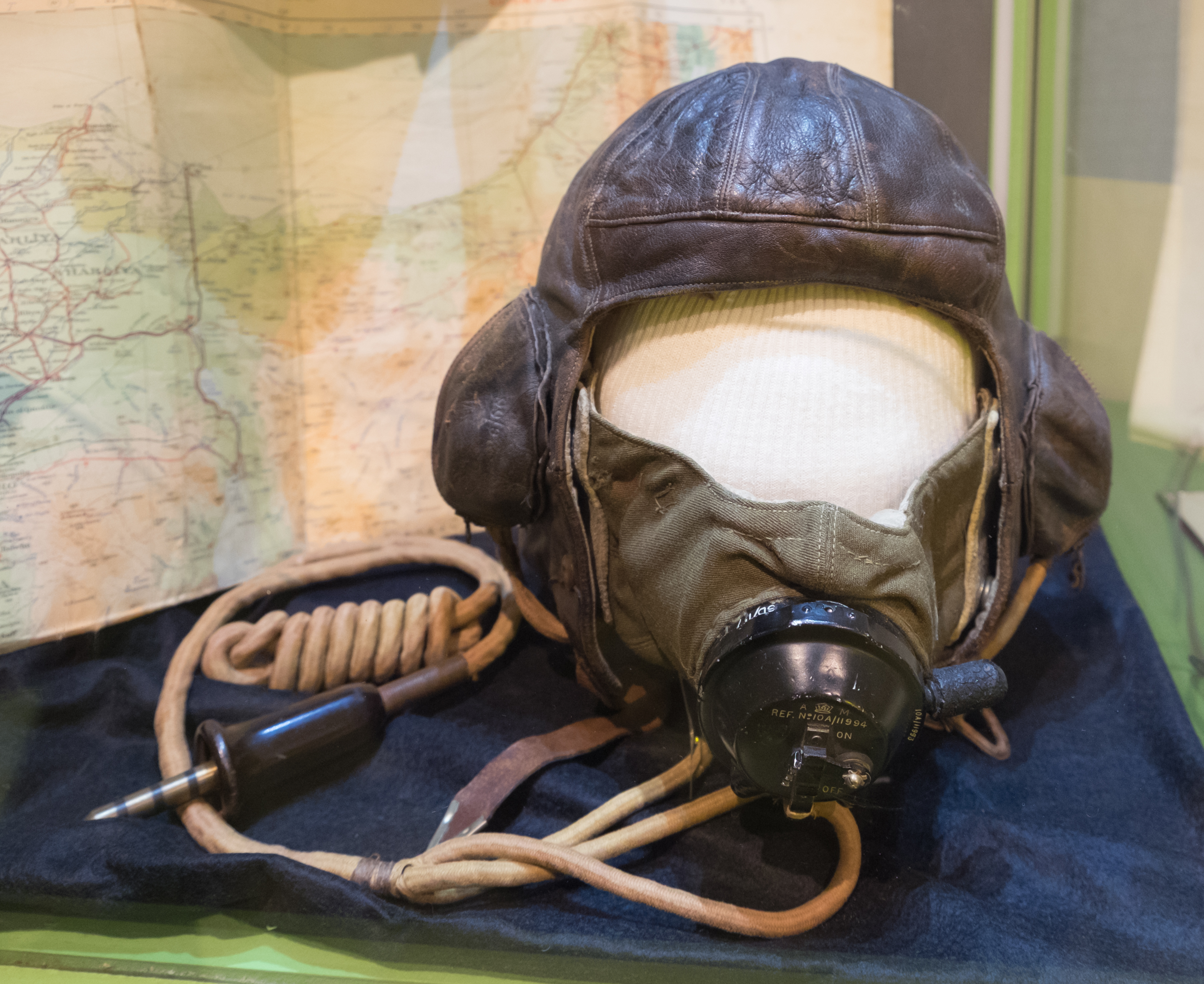 Roald Dahl's leather flying helmet which is equipped with communication cables and oxygen mask. Dahl was an RAF fighter pilot in the Second World War. This item is on display in the Roald Dahl Museum and Story Centre in Great Missenden, Buckinghamshire.